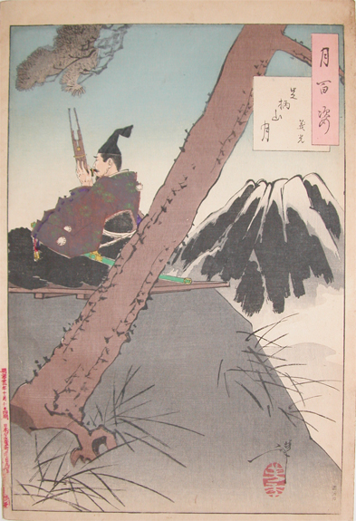 Mount Ashigara moon (Ashigarayama no tsuki)